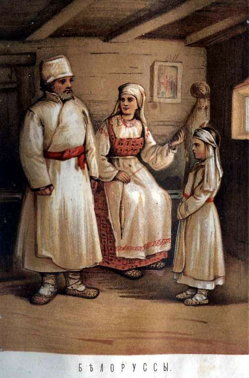 From the book Illustrated Encyclopedia of the Peoples of Russia., St. Petersburg, 1877